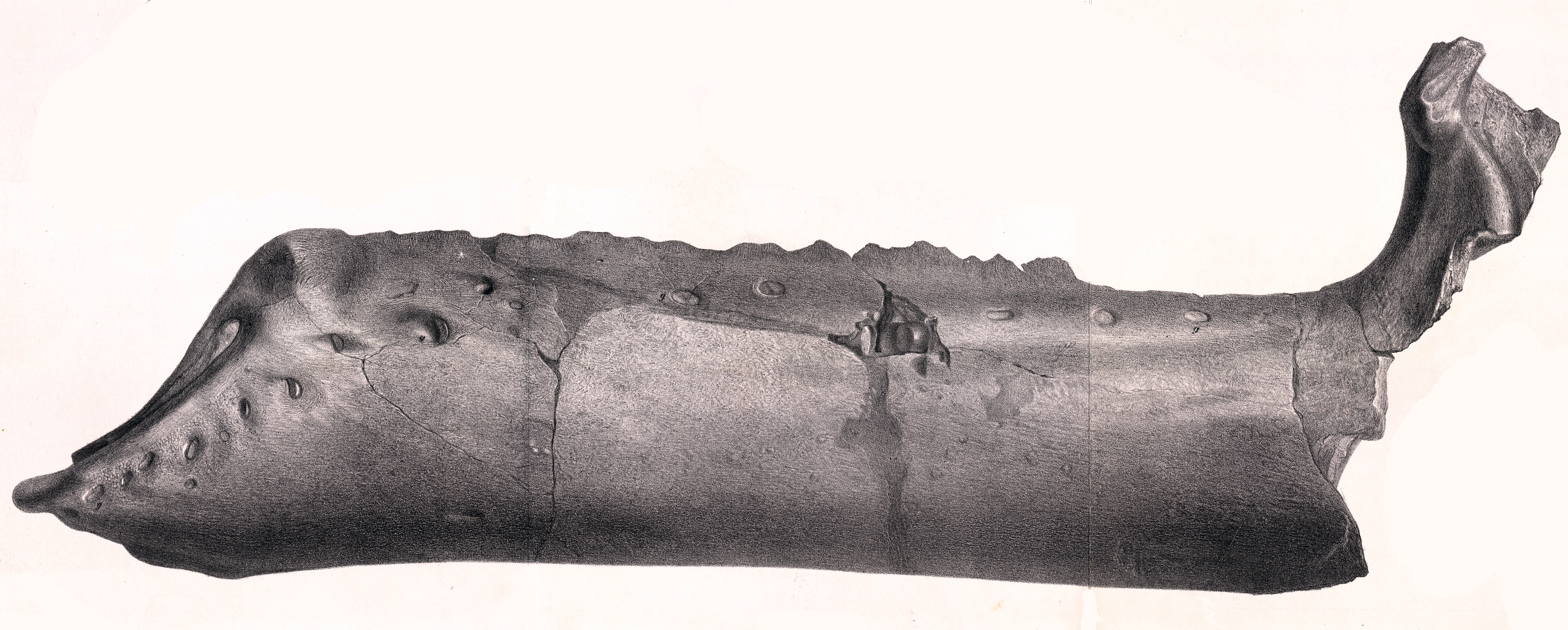 Type specimen of Kukufeldia tilgatensis. Originally: The dentary part of the lower jaw of a large, probably full-grown Iguanodon; nat. size. From the Wealden of Tilgate, Sussex. In the British Museum.